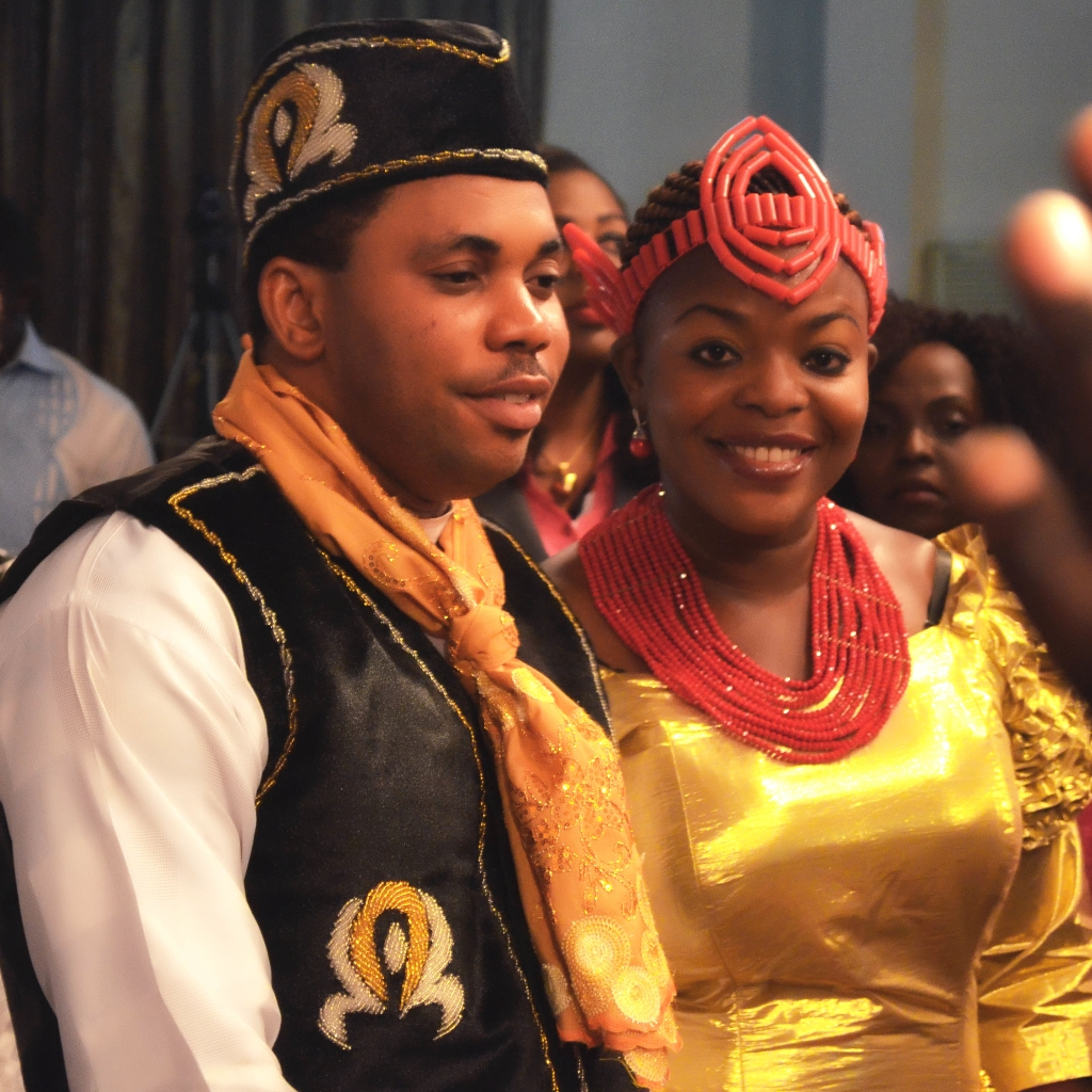 Ibibio Traditional Attire of Akwa Ibom State, Nigeria. This is an image of Cultural Fashion or Adornment from Nigeria